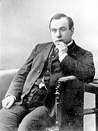 Portrait of Russian entrepreneur and opera manager Sergey Zimin (1875-1942)